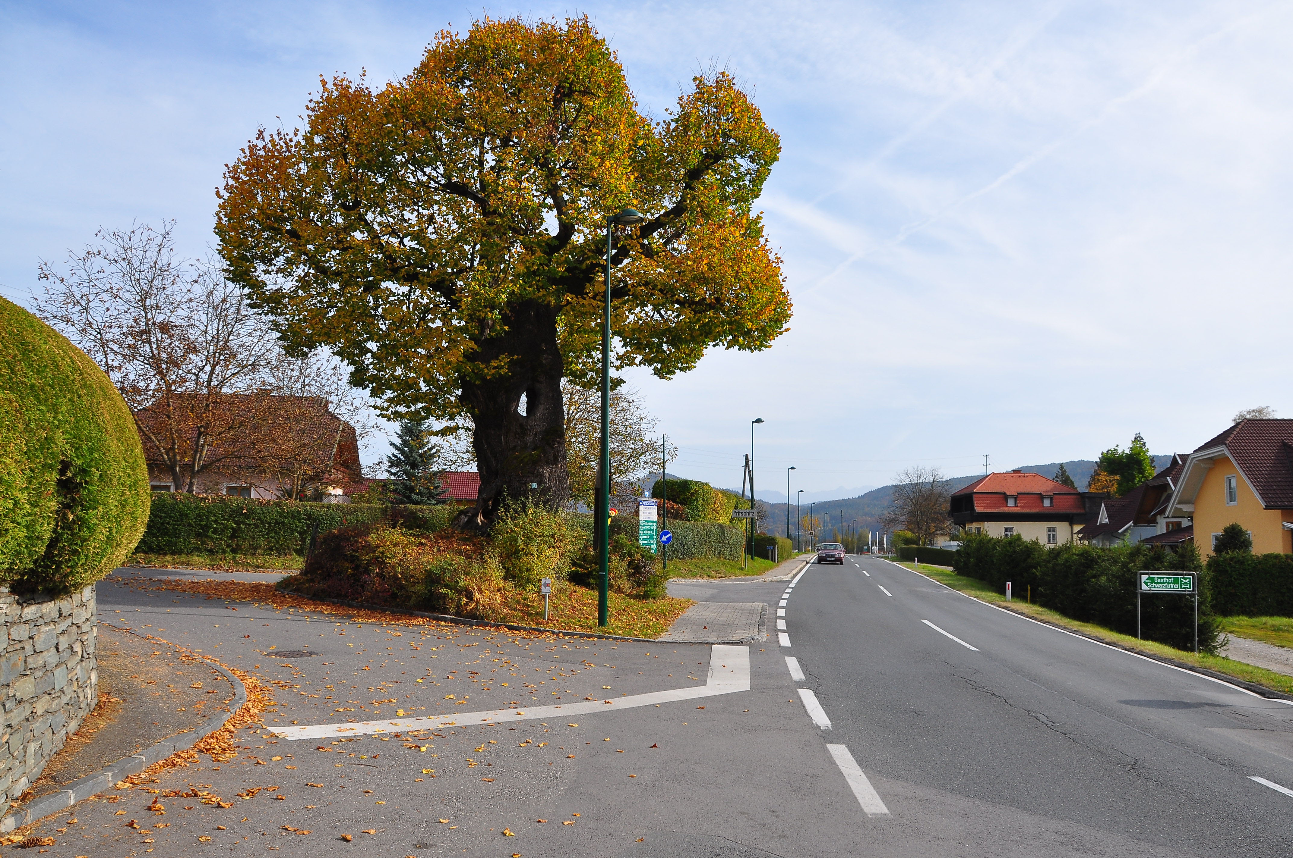 "Napoleon linden tree" in Pritschitz, municipality Poertschach on the Lake Woerth, district Klagenfurt Land, Carinthia, Austria, EU